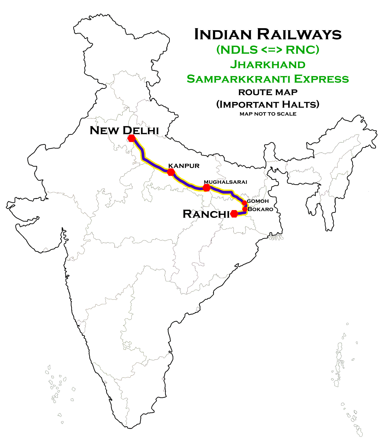 Jharkhand Samparkkranti Express (NDLS - RNC) Route map